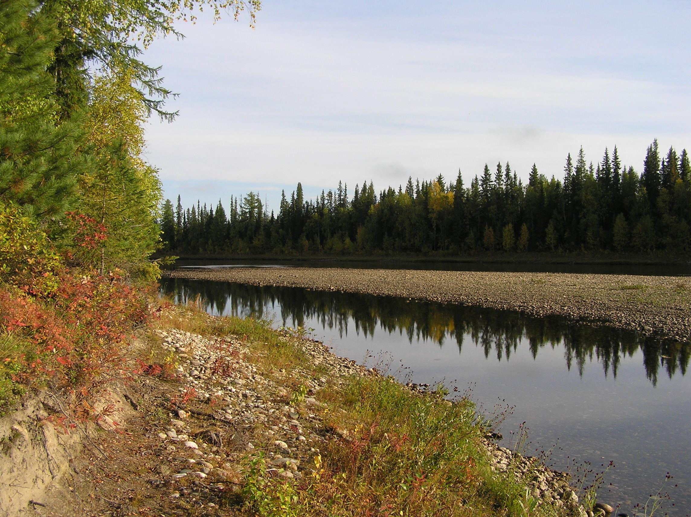 Taiga forest and river in the northeast Prepolar Ural Mountains. Located near Saranpaul in Khanty-Mantsiya Autonomous Okrug, Tyumen Oblast, Russia. Trees include Picea obovata (dominant on right bank), Larix sibirica, Pinus sibirica, and Betula pendula.